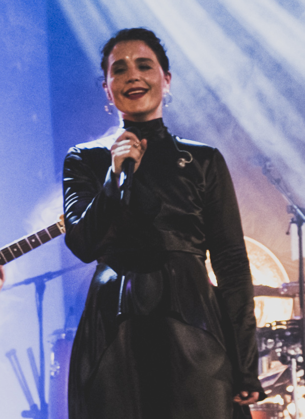 Performance of Jessie Ware in the Islington Assembly Hall in September 2017.